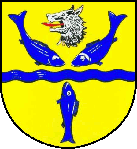 Coat of arms of the Stadt (town) Krempe in Schleswig-Holstein, Germany.